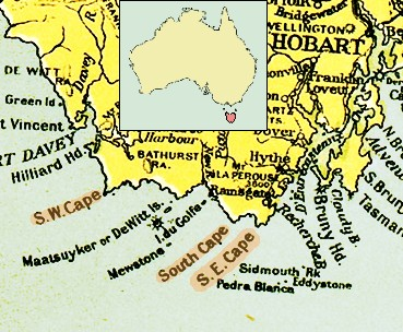 Southern Coast of Tasmania. From the map "Commonwealth of Australia", published with the Official Year Book of the Commonwealth of Australia, Melbourne: McCarron, Bird and Co., 1916. (with the addition of a locator map for Tasmania)